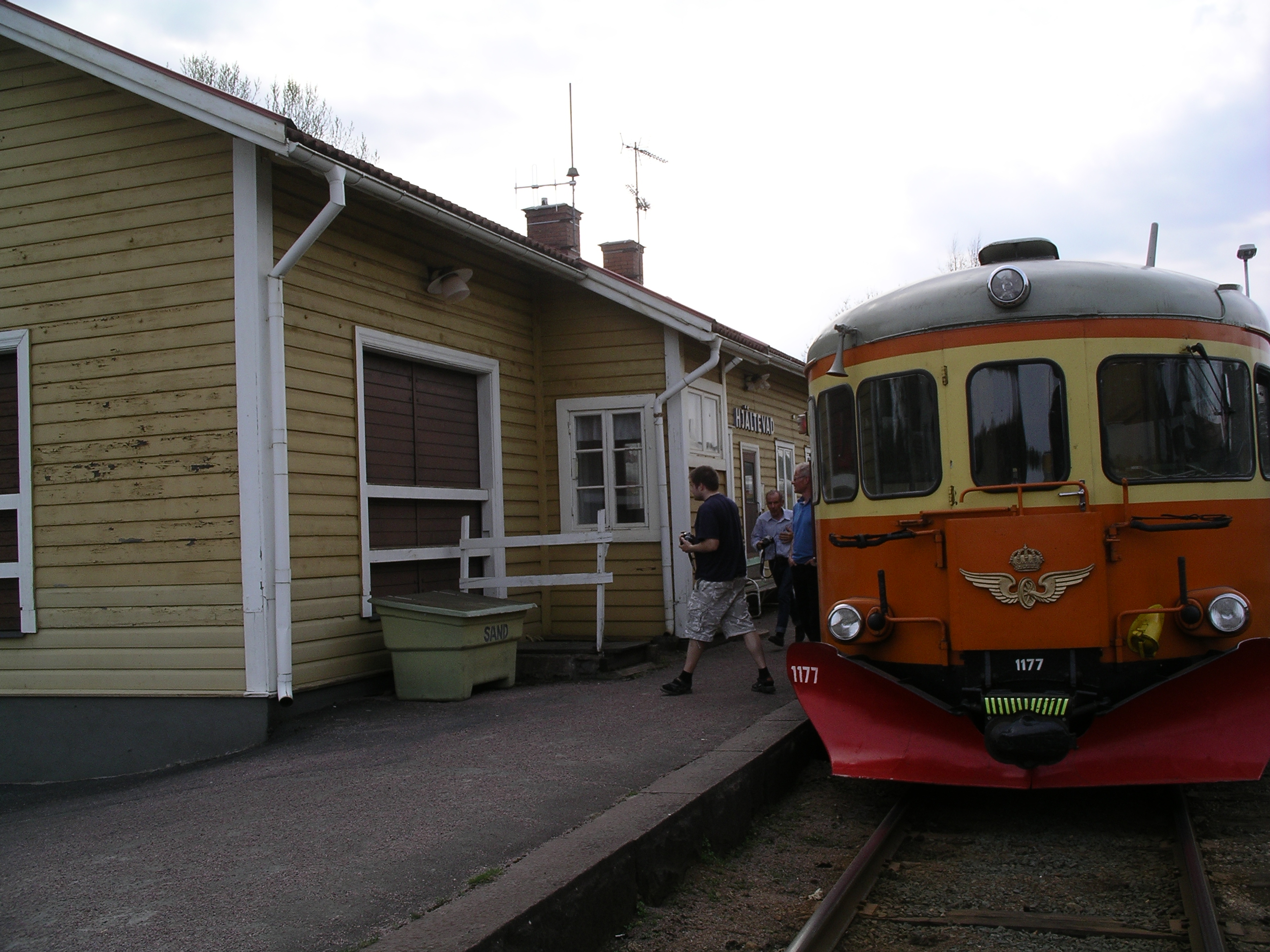 Railway station Hjältevad in Sweden